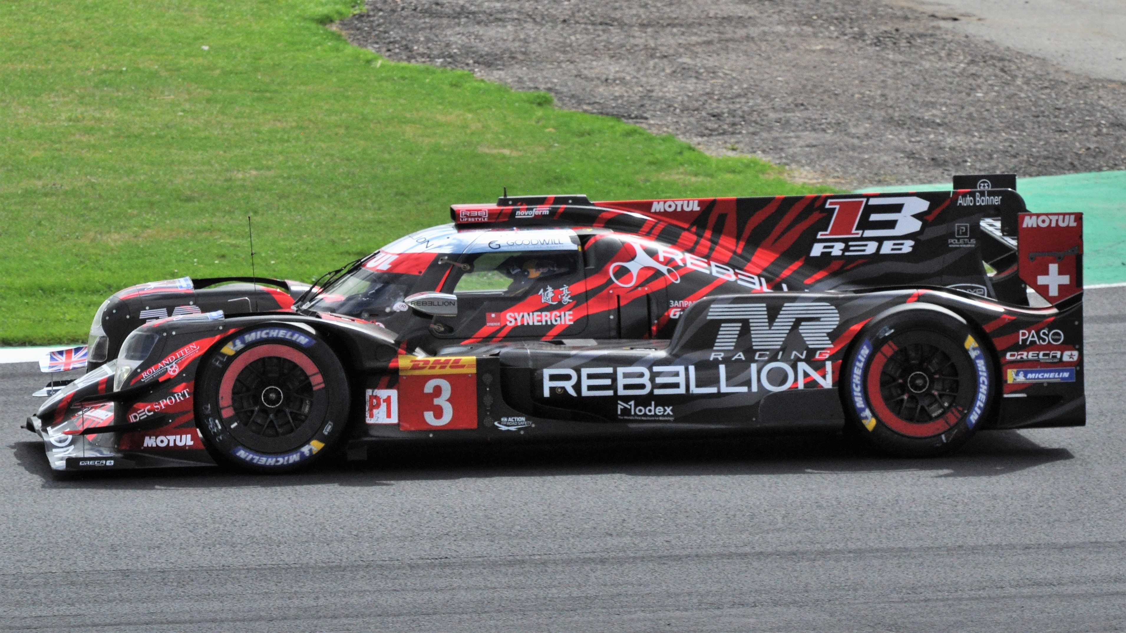 American driver Gustavo Menezes enters Village corner in the race-winning number 3 works Rebellion R13 car, during the 2018 6 Hours of Silverstone. Menezes and his co-drivers, Mathias Beche and Thomas Laurent, finished in third place on the road, but the subsequent disqualification of the two Toyota cars elevated them to the race win.